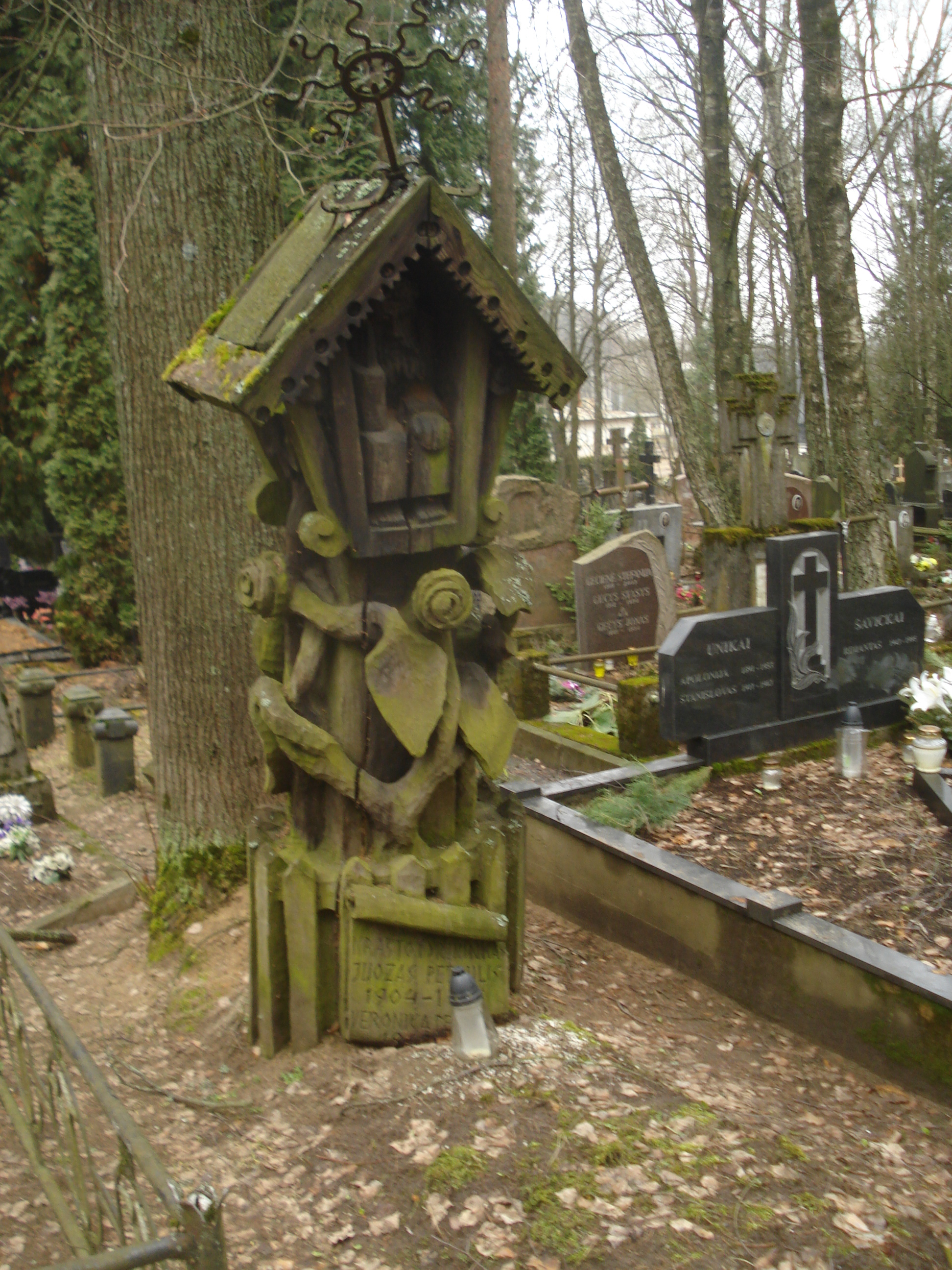 Saltoniškės Cemetery (Vilnius)